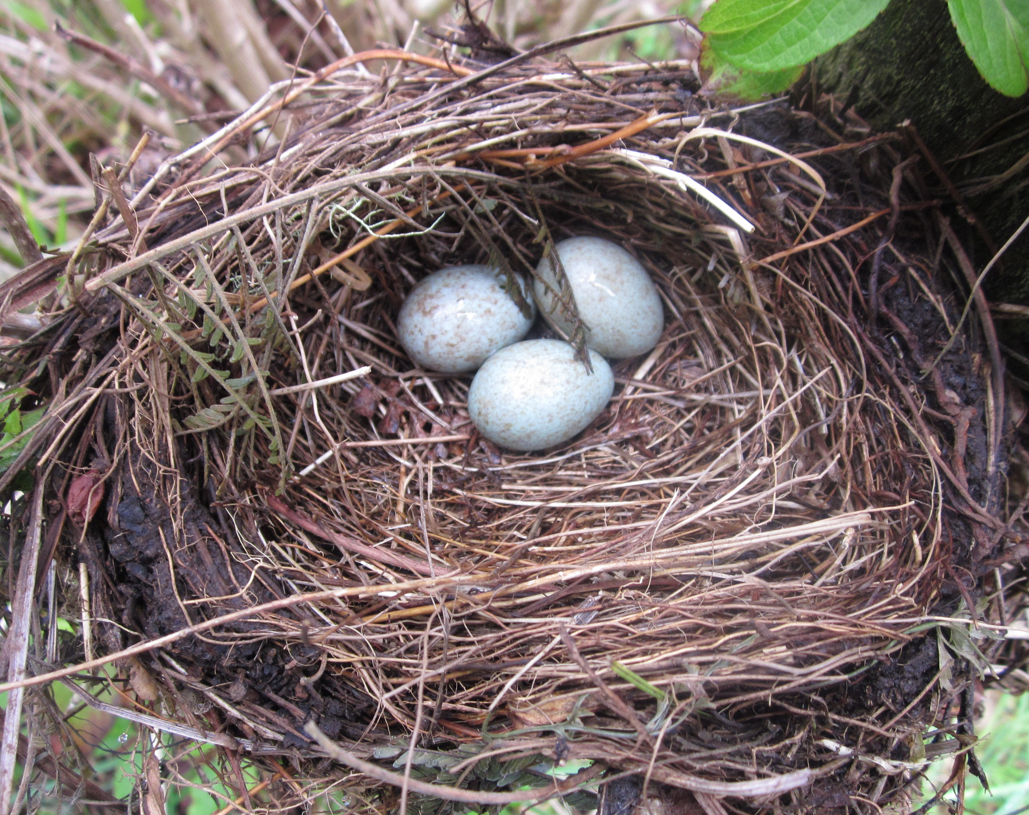 Bird's nest by path